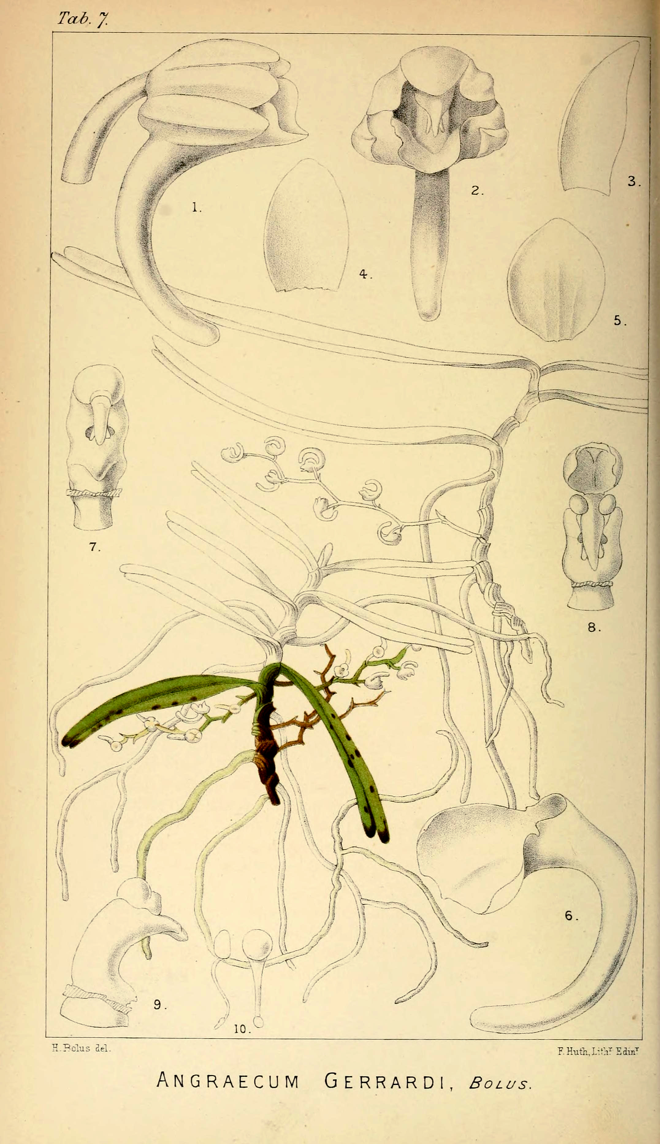 Rhipidoglossum xanthopollinium syn. Angraecum gerrardii